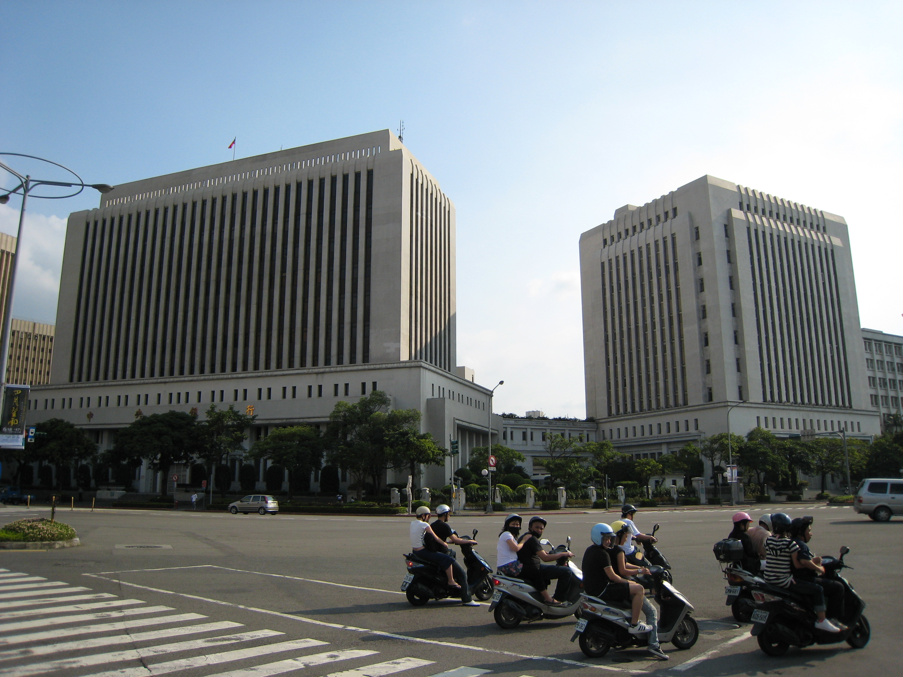 Central Bank of China Building, Taipei, Taiwan Republic of China.Bân-lâm-gú: Tī Tâi-uân Tâi-pak-tshī ê Tiong-huâ Bîn-kok Tiong-iong Gîn-hâng. 佇臺灣臺北市的中華民國中央銀行。